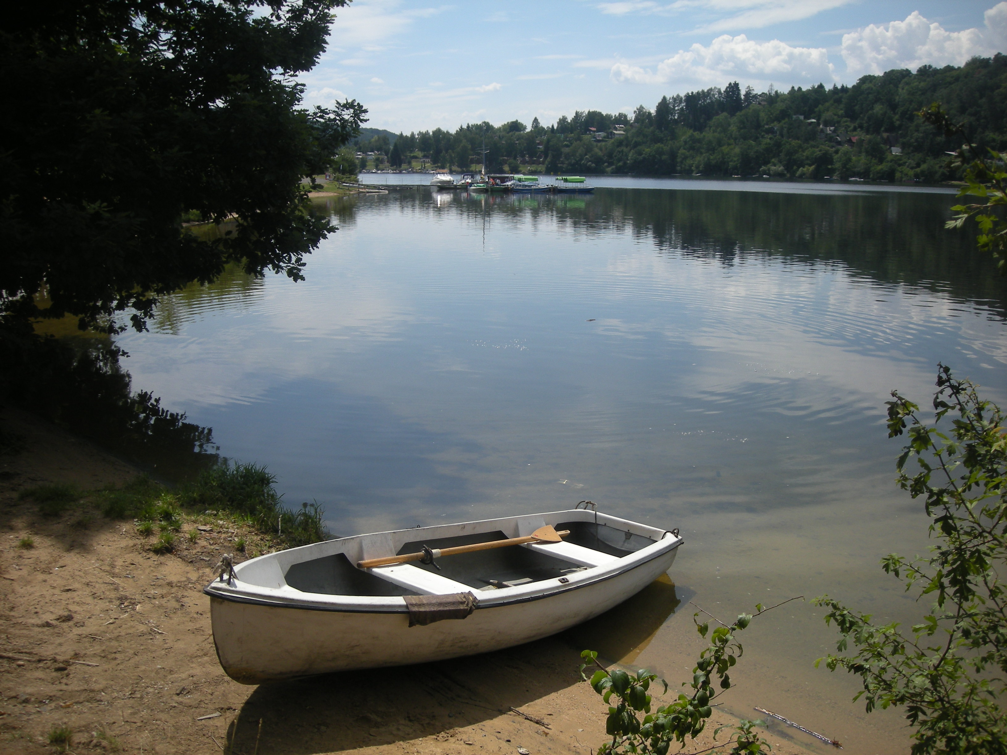 lonely boat, Slapy dam, summer 2010.